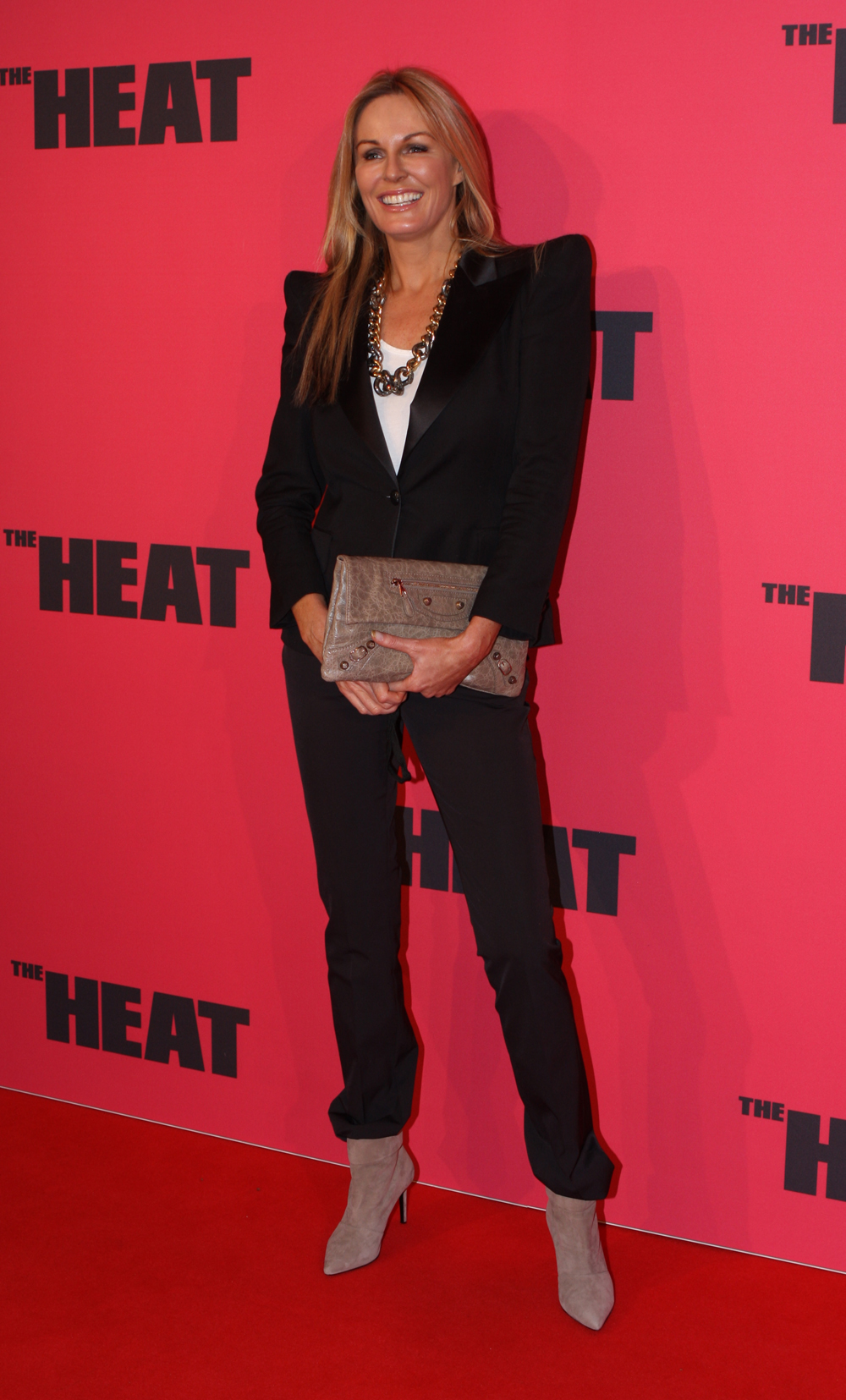 The Heat red carpet movie premiere in Sydney, Australia with Sandra Bullock - 2nd July 2013.